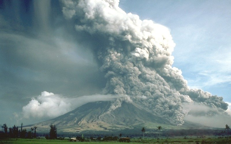 Pyroclastic flows at Mayon Volcano, Philippines, 1984. Pyroclastic flows descend the south-eastern flank of Mayon Volcano, Philippines. Maximum height of the eruption column was 15 km above sea level, and volcanic ash fell within about 50 km toward the west. There were no casualties from the 1984 eruption because more than 73,000 people evacuated the danger zones as recommended by scientists of the Philippine Institute of Volcanology and Seismology.